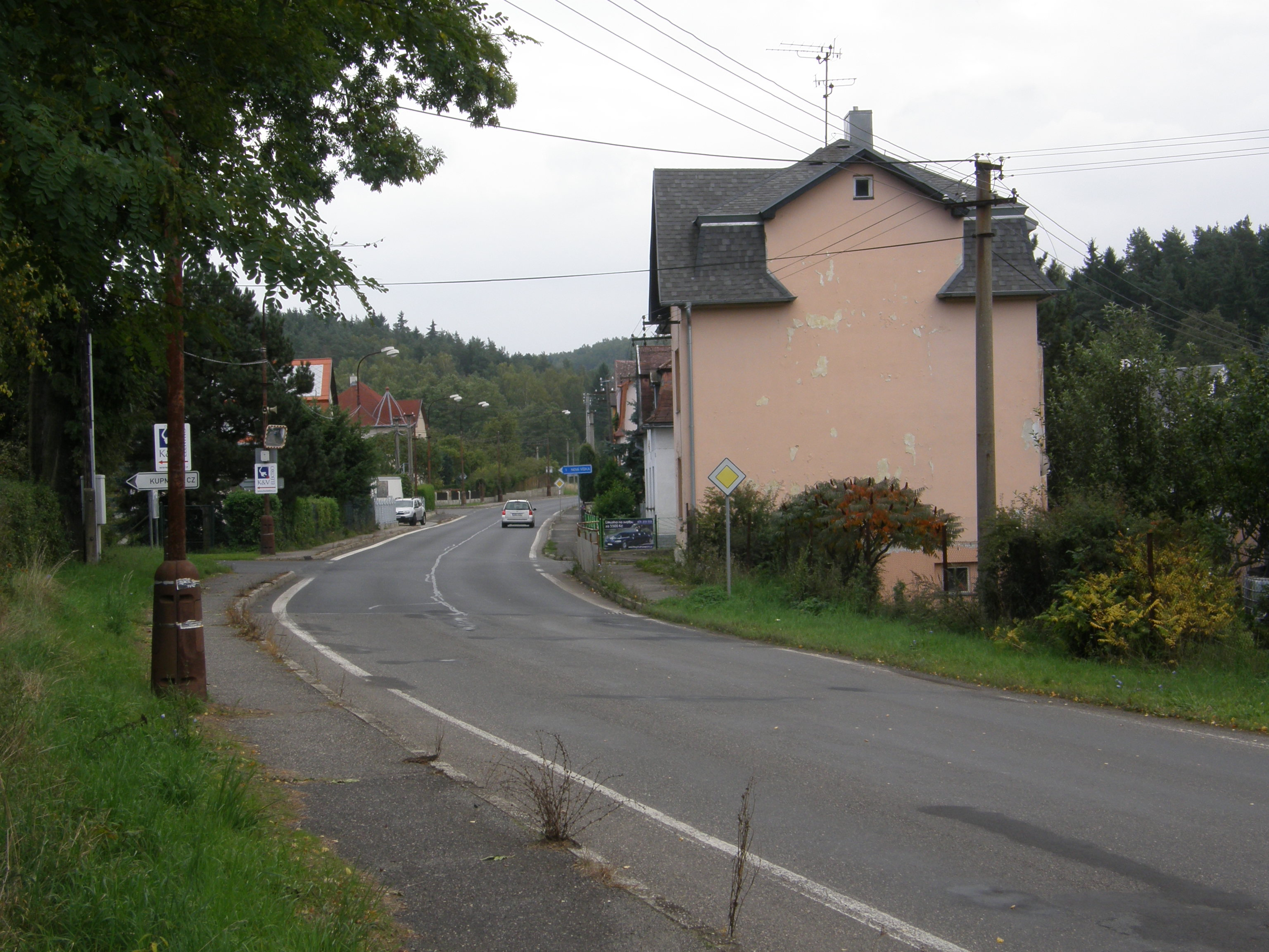 Main road, direction from Sadov to Bor